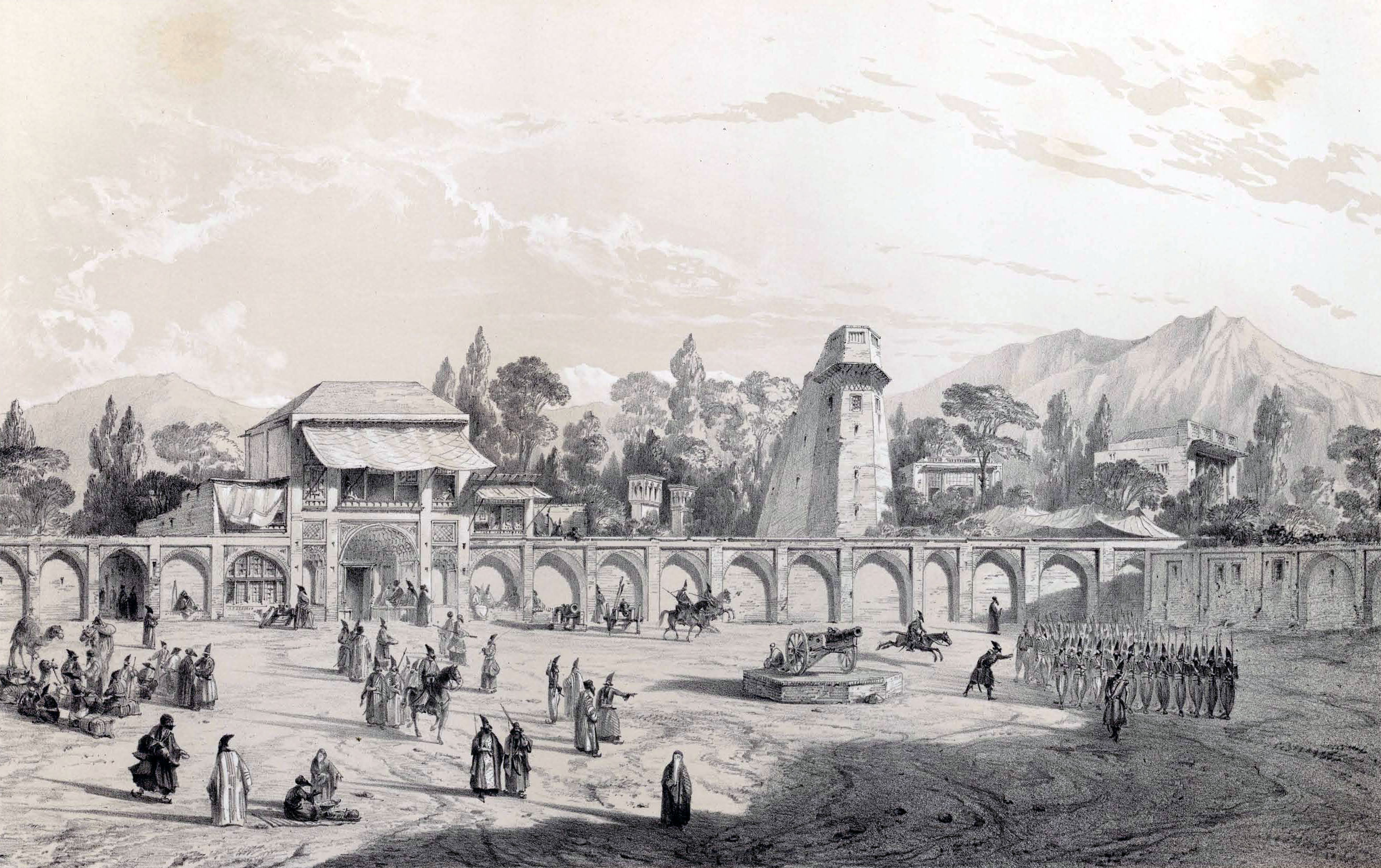 Meidan i Shah , Royal Square , Tehran